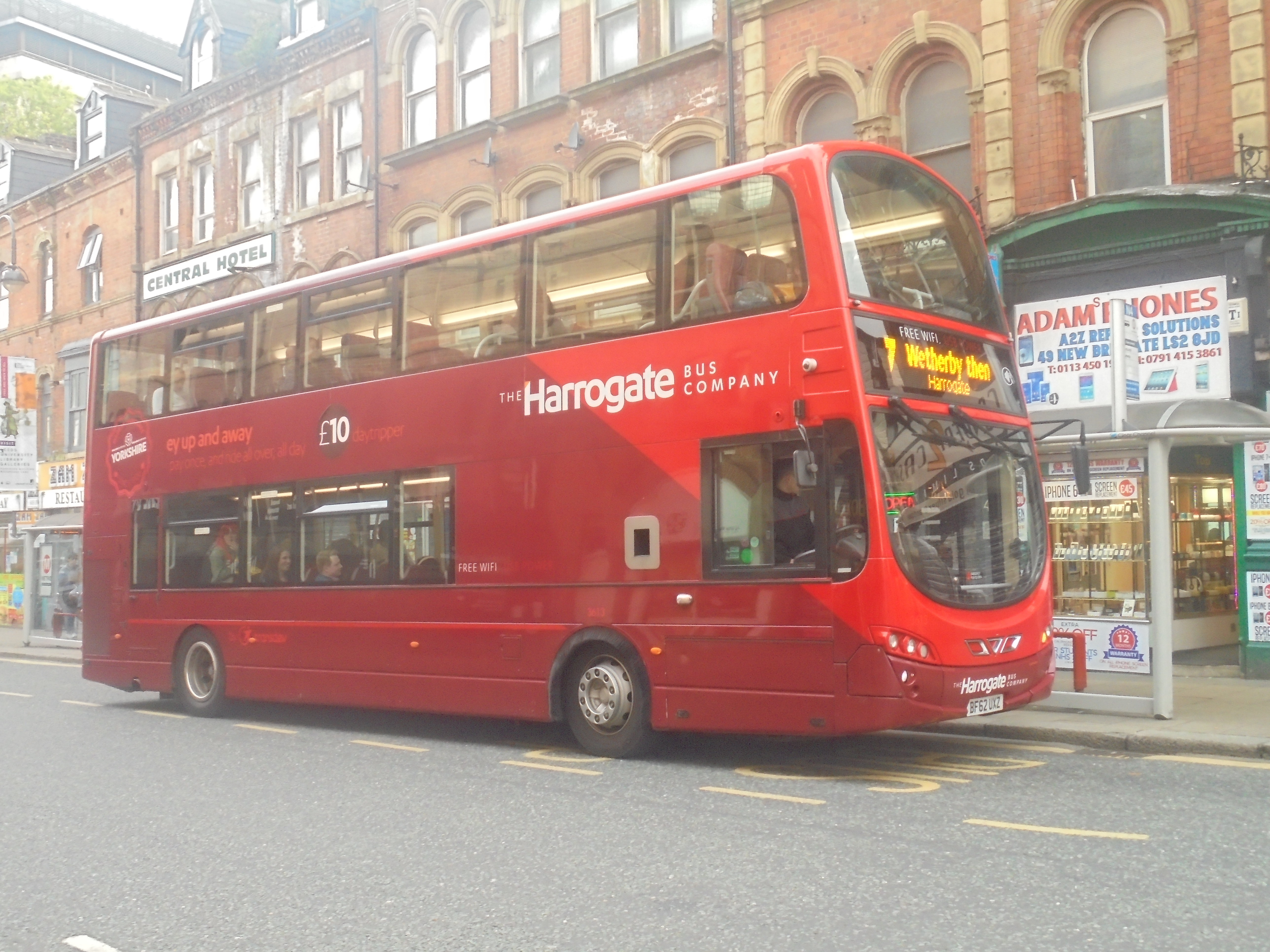 Harrogate Bus Company 7, New Briggate, Leeds, West Yorkshire. Taken on the evening of Friday the 18th of May 2018.